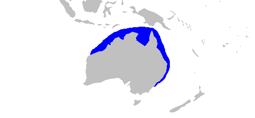 Distribution map for Carcharhinus tilsoni